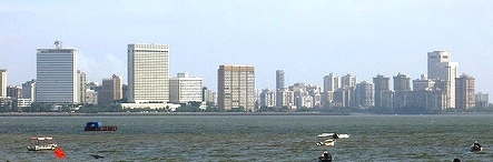 Downtown Bombay